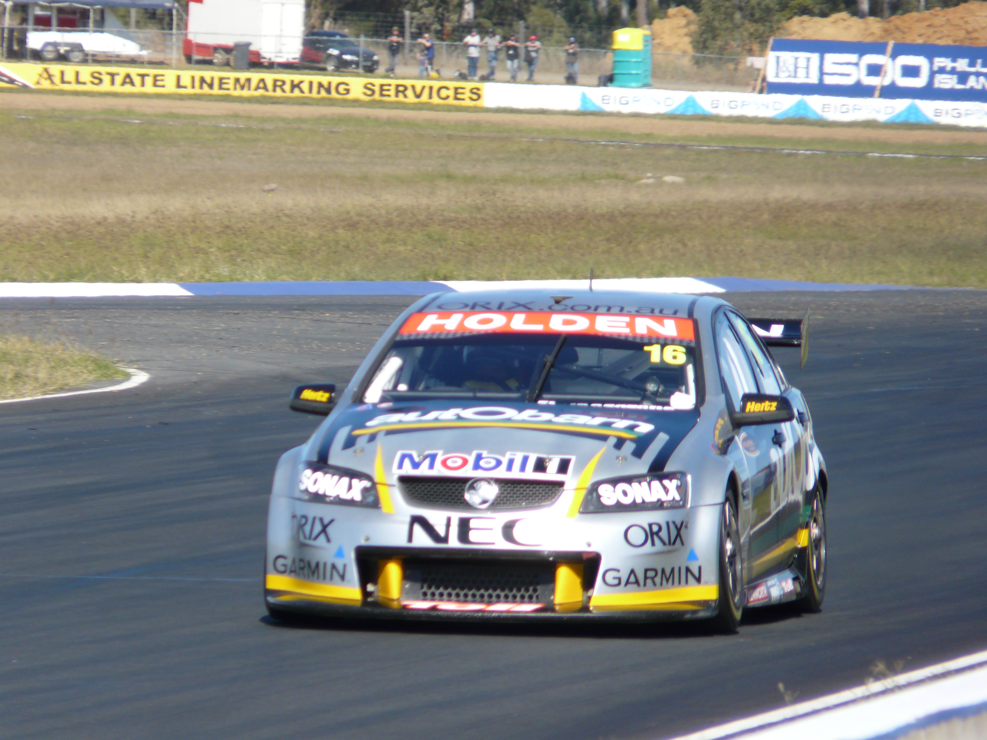 Paul Dumbrell on the back straight at Queensland Raceway